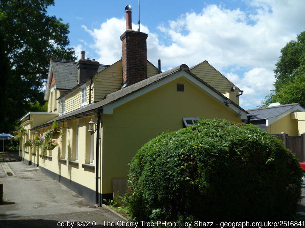 External view of The Cherry Tree, a public house in the village of Copthorne, West Sussex, England (though the pub itself actually lies in Surrey). Location of field recordings from the 1950s/60s by traditional singer Pop Maynard.